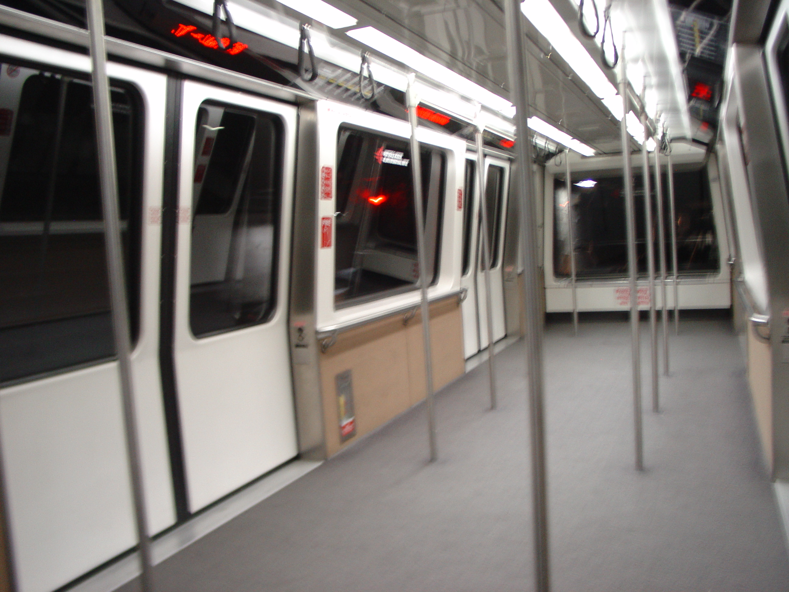 The interior of a Bombardier CX-100 vehicle of the Hartsfield-Jackson Atlanta International Airport Automated People Mover.